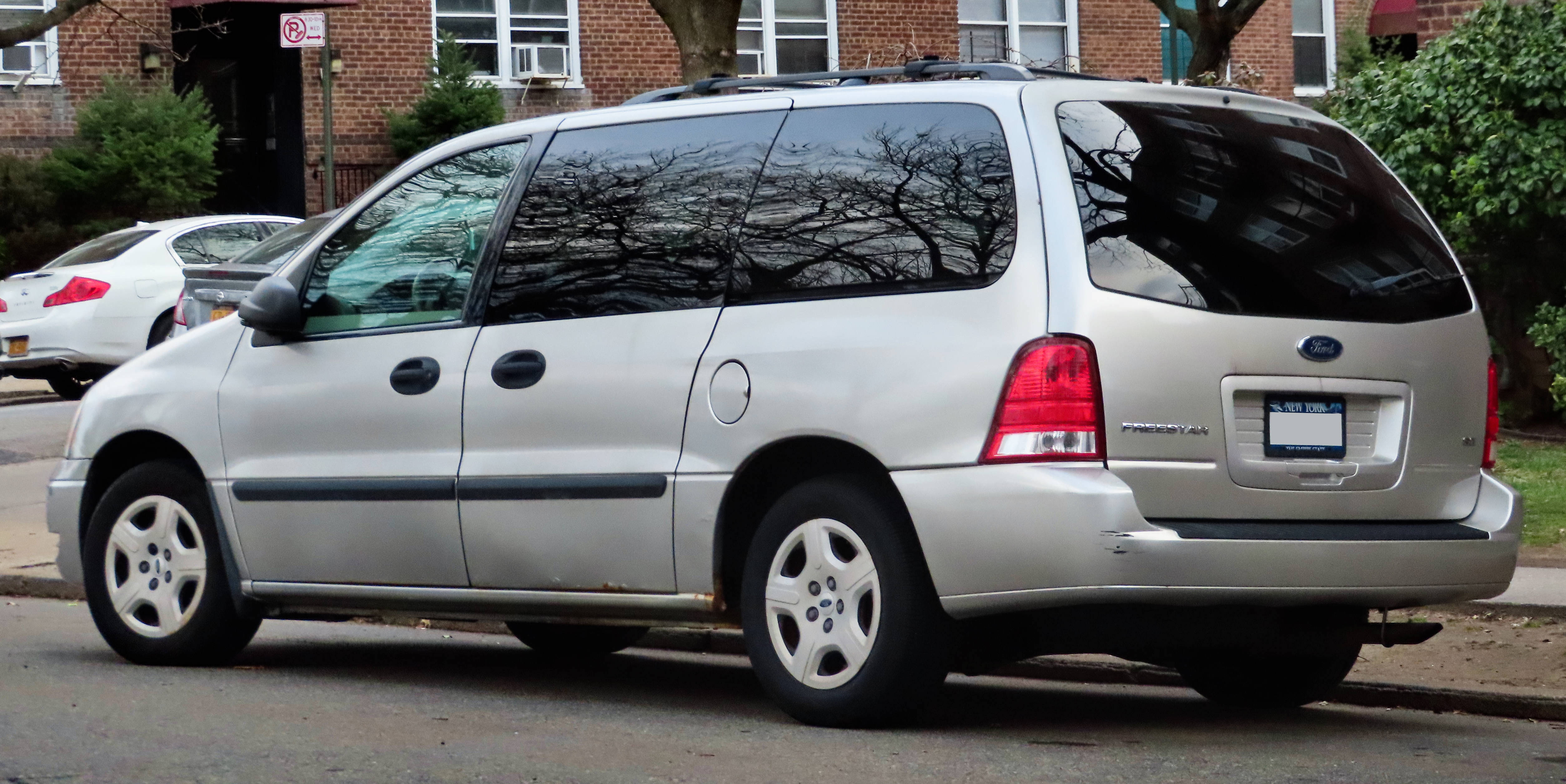 A 2004 Ford Freestar SE photographed in Kew Gardens Hills, Queens, New York, USA